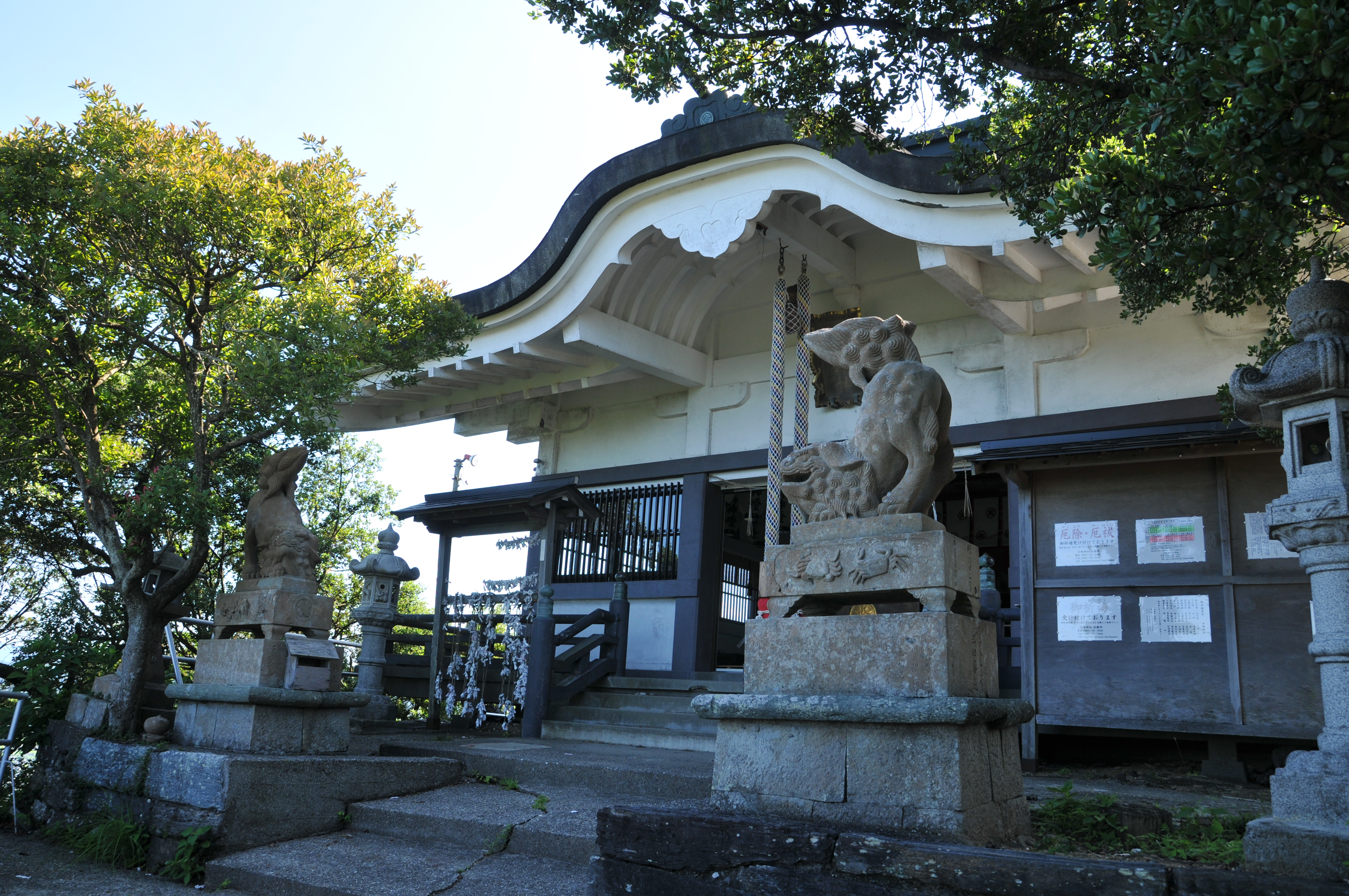 Front shrine, Hinomine jinja